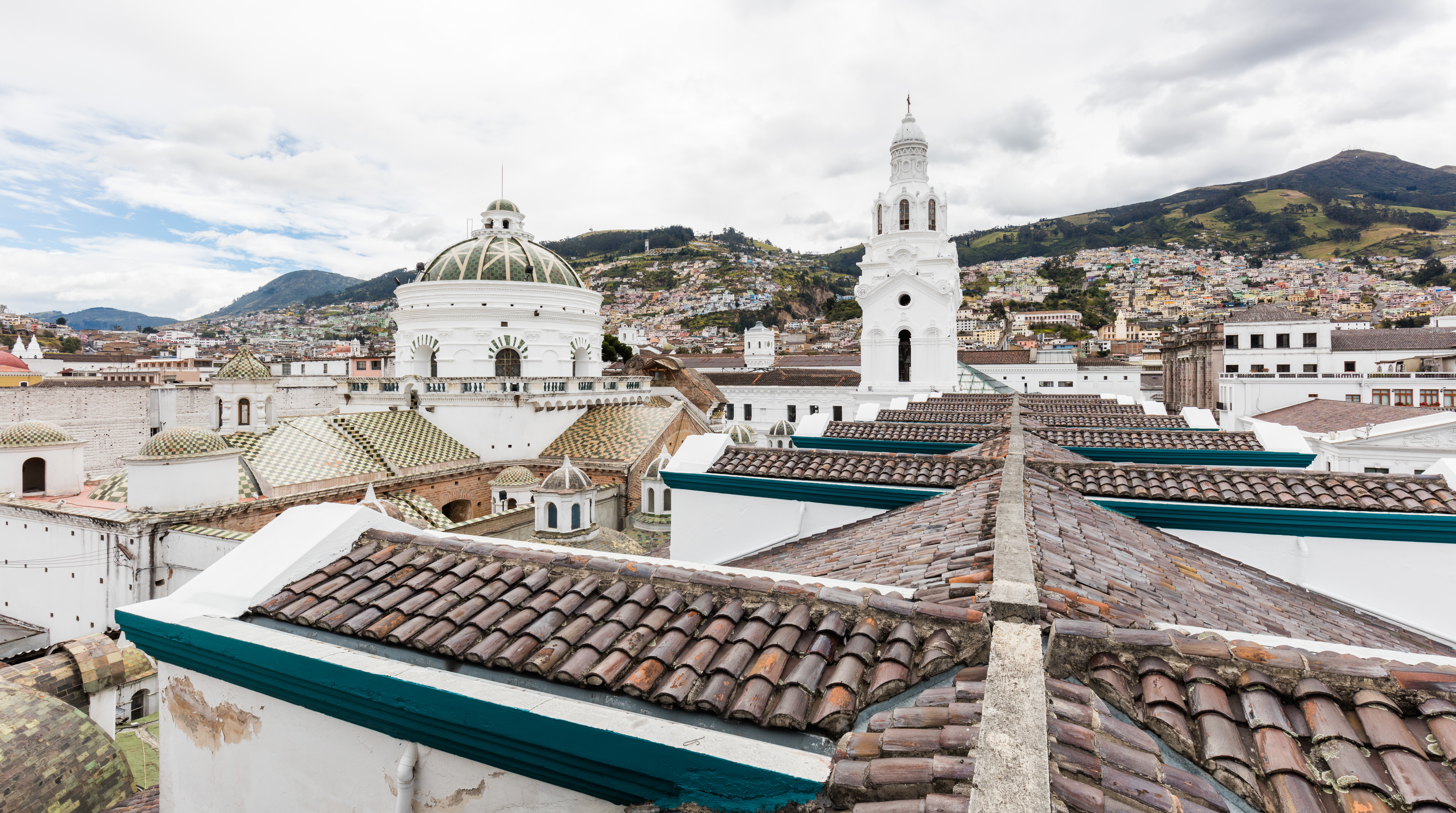 Quito Cathedral, Quito, Ecuador